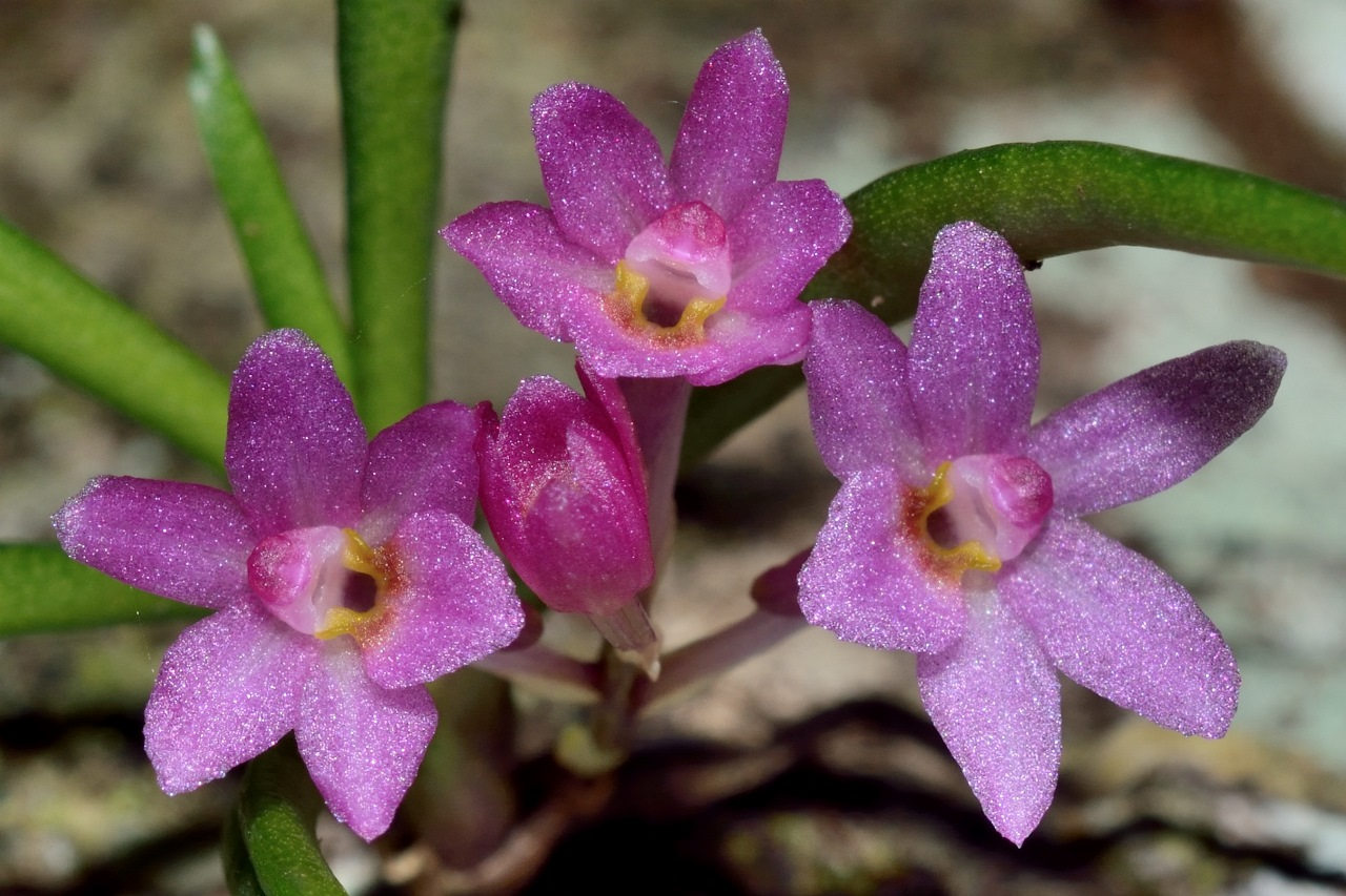 Holcoglossum pumilum